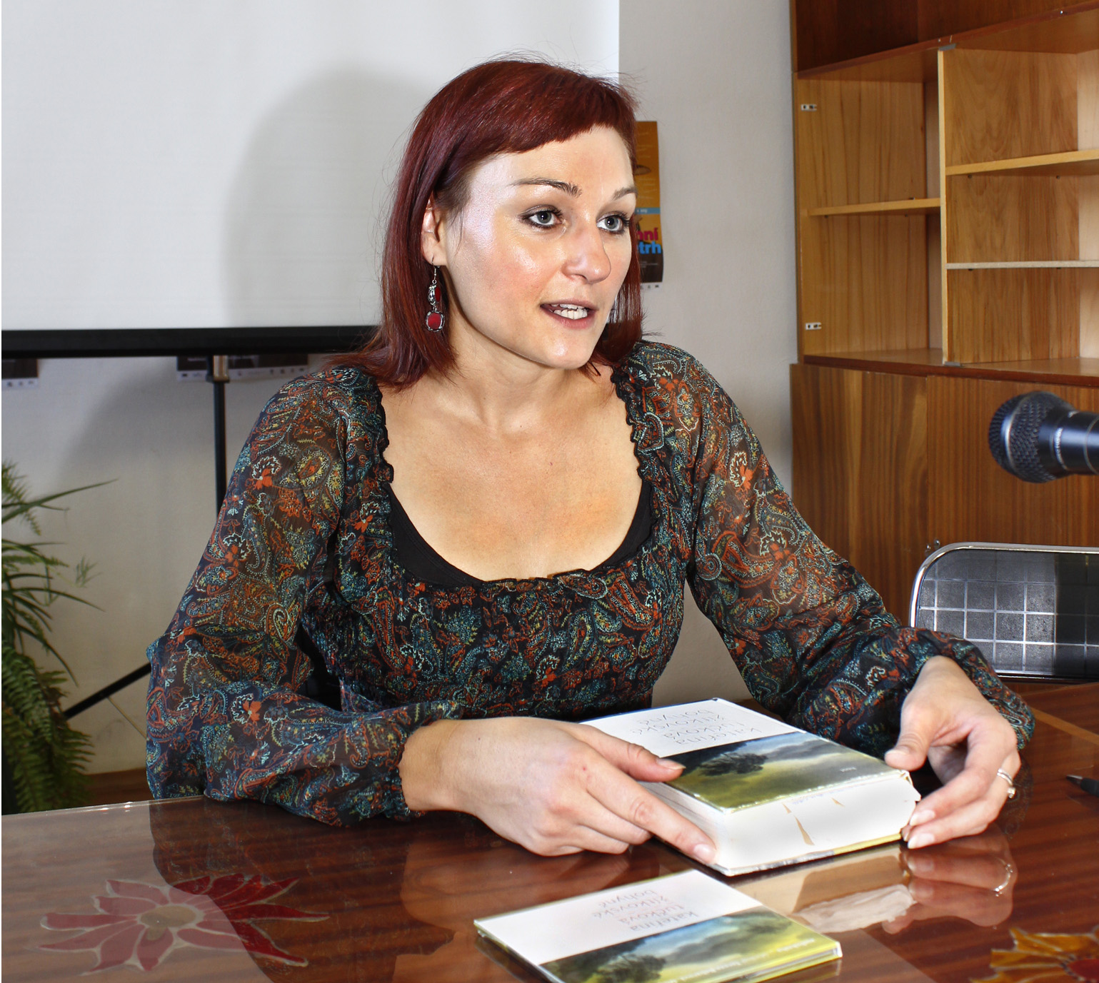 Czech writer Kateřina Tučková